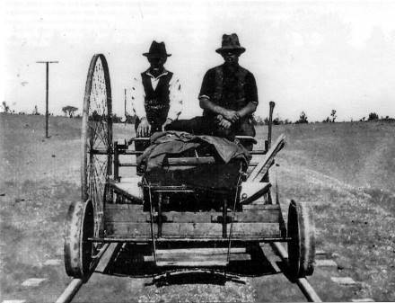 NSWGR Rotameter for measuring railway distances